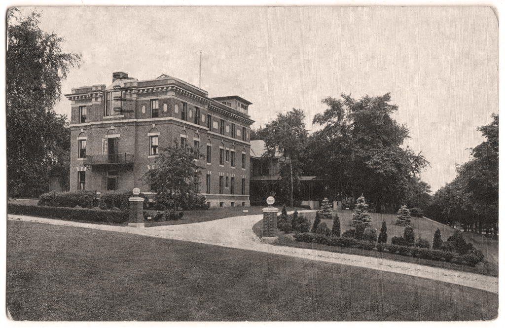 Hahnemann Hospital prior to 1925